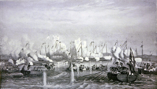 A Royal Navy force defeated a flotilla of Chinese war junks during the Battle of Fatshan Creek, before the Second Opium War.